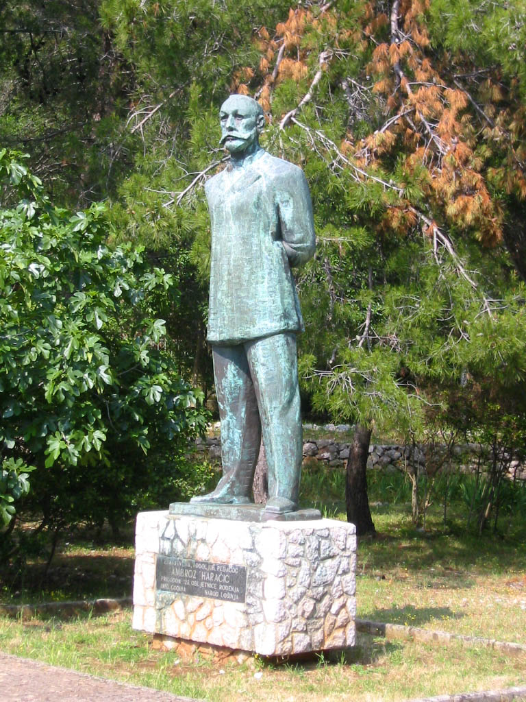 Ambroz Haračič, croatian scientist (planted pine forests it the island of Lošinj) photo:Ziga 10:41, 16 April 2007 (UTC)